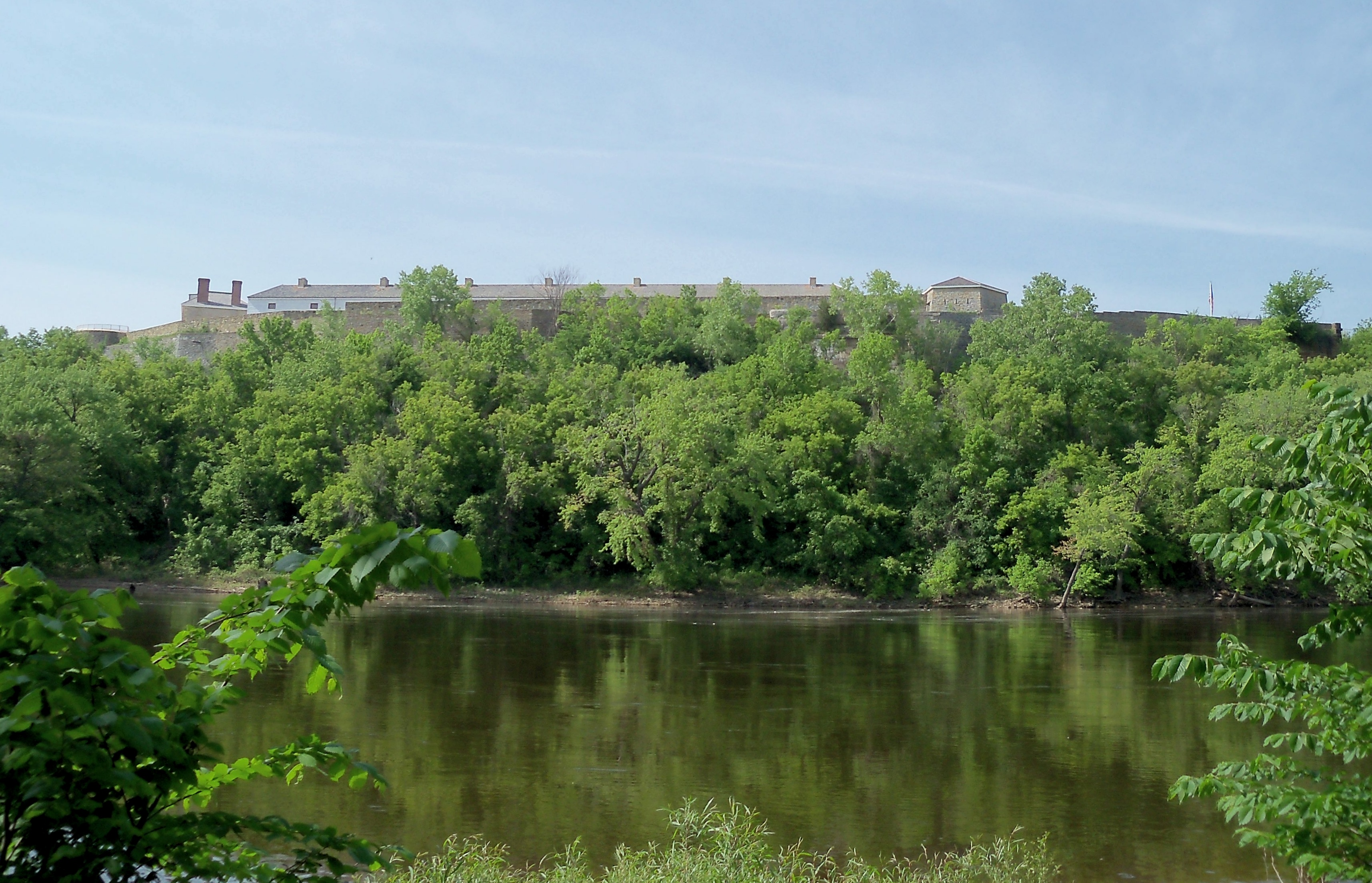 Fort Snelling from the banks of the Mississippi River in the US state of Minnesota.